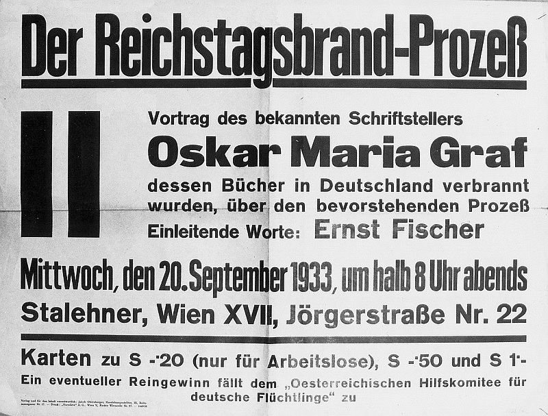 Poster for a lecture by Oskar Maria Graf on the Reichstag fire trial on 20 September 1933 in Vienna.